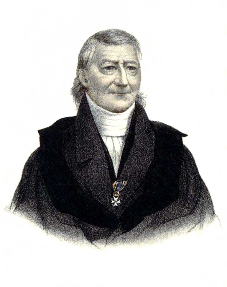 Hendrik Willem Tydeman (1778-1863), professor law at the universities of Franeker, Leiden and Deventer